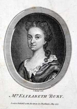 Mrs Elizabeth Bury Copper engraved oval by Burder (engraver) published by J. Buckland, London, 1777, From 'MEMOIRS OF EMINENTLY PIOUS WOMEN, who were ornaments to their sex, blessings to their families and eddifying examples to their church and the world, in two volumes.